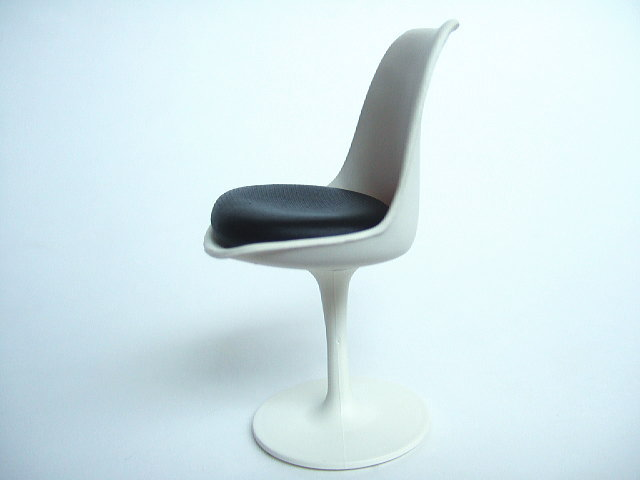 Toy Miniature version of Eero Saarinen's Tulip chair.